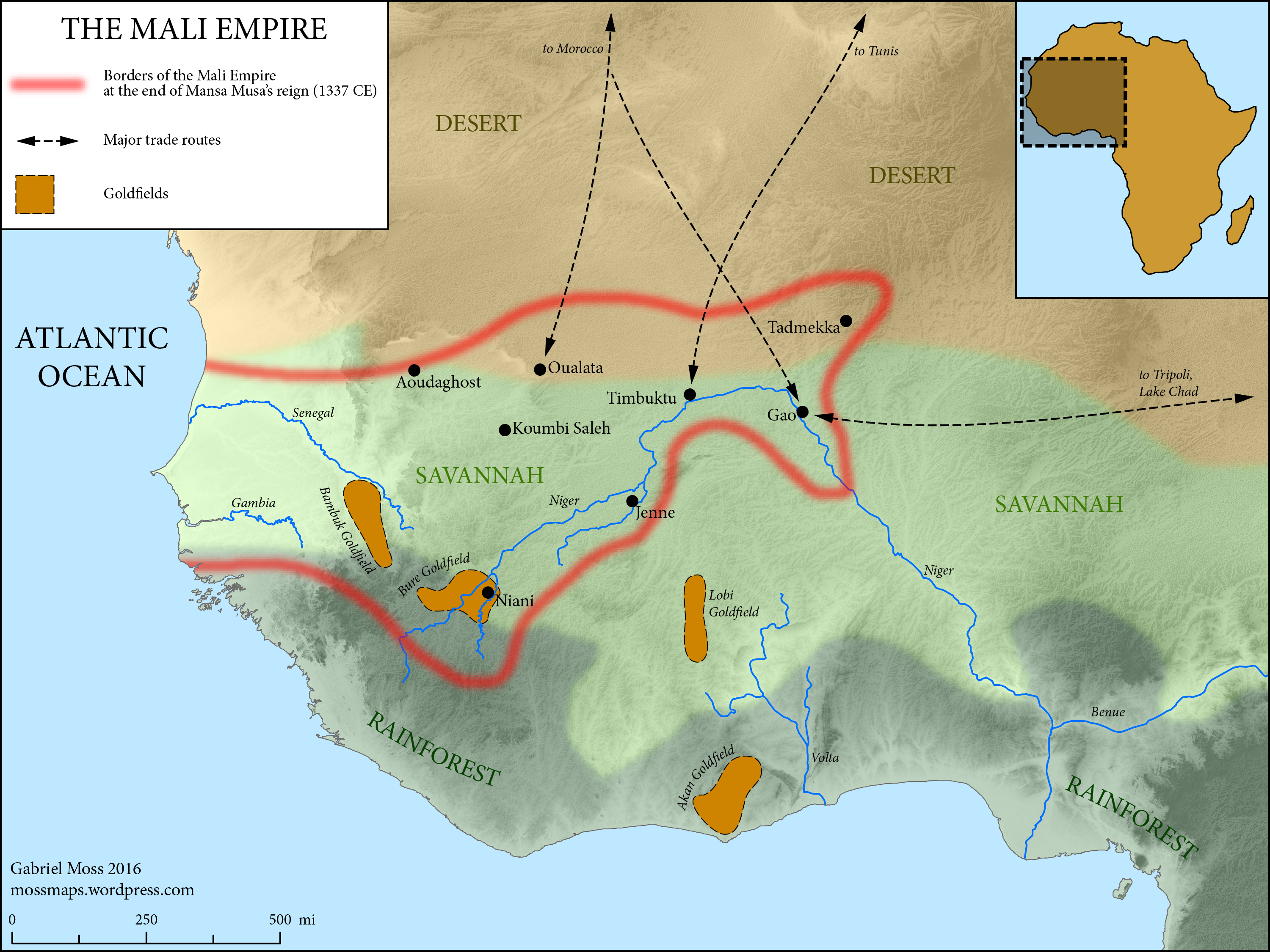 The Medieval Mali Empire at the end of Mansa Musa's reign (1337 CE) Map Sources: Physical elevation representation comes from public-domain SRTM data. Coastlines follow the Barrington Atlas of the Ancient World (Princeton University Press, 2000)--while Mali hardly falls within the time period covered by this atlas, these coastlines omit major harbor construction in the modern period, and are accurate at the scale of the map. Rivers adapted from ESRI user contributions, or traced from satellite imagery. Ecological zones based on "A New Map of Standardized Terrestrial Ecosystems of Africa" (Association of American Geographers, 2013). Historical data drawn from Robert Collins and James Burns, "A History of Sub-Saharan Africa" (Cambridge University Press, 2007) (see esp. p. 86). Adapted and expanded based on lecture materials from Dr. Lisa Lindsay at the University of North Carolina-Chapel Hill, and from this map by wikimedia user Aa77zz